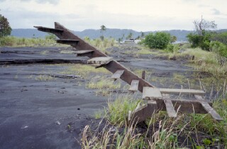 The remains of a house in the part of Rabaul which suffered the most ashfall in the 1994 eruptions. Taken in 2001 by pm67nz.